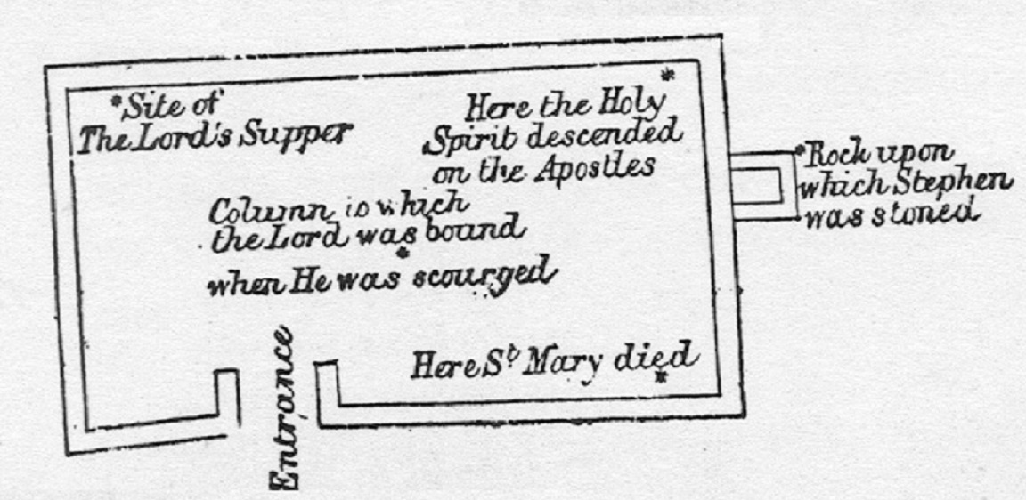 The diagram of basilica at Zion, after Arculf's sketch (The Pilgrimage of Arculfus)